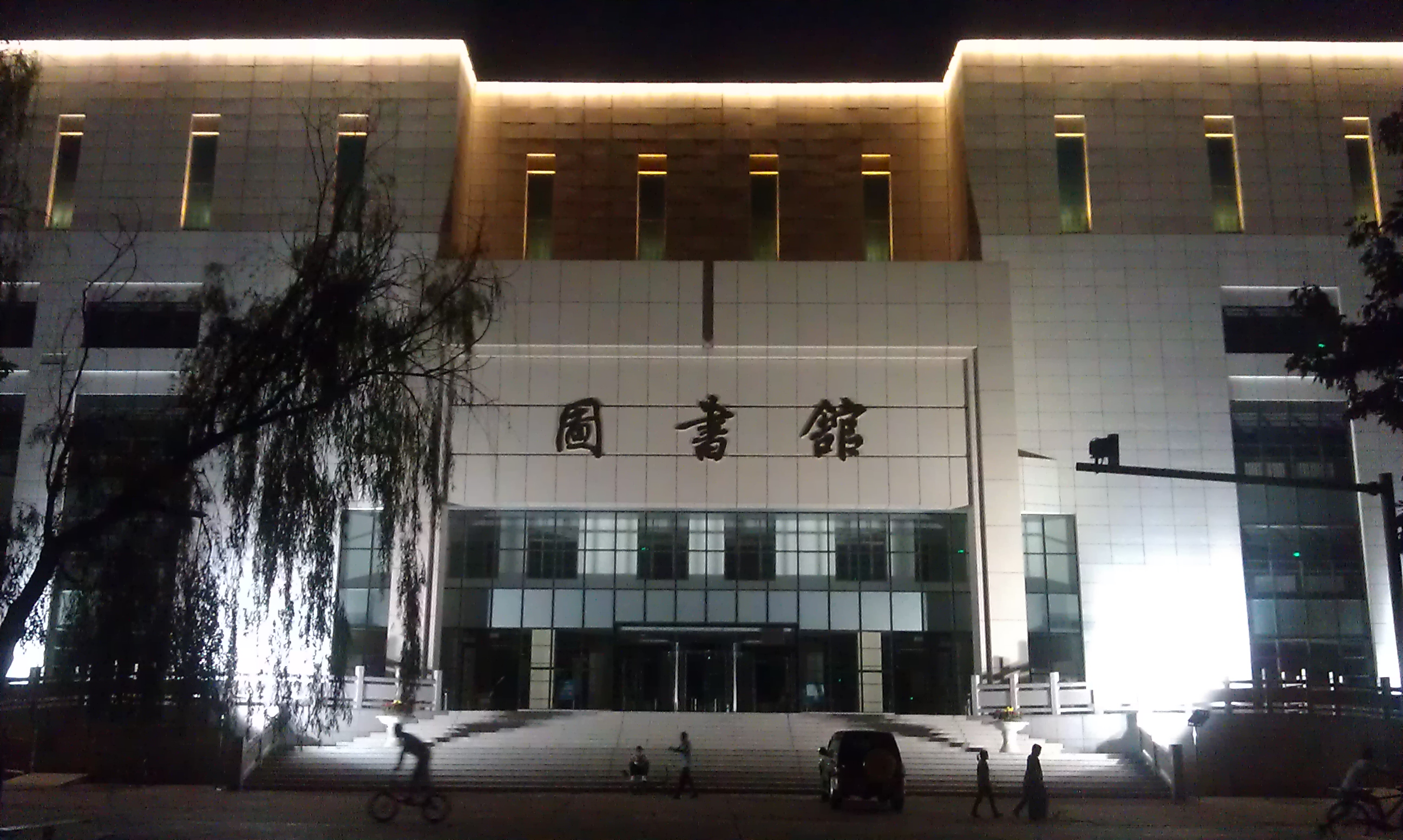 library of shzu